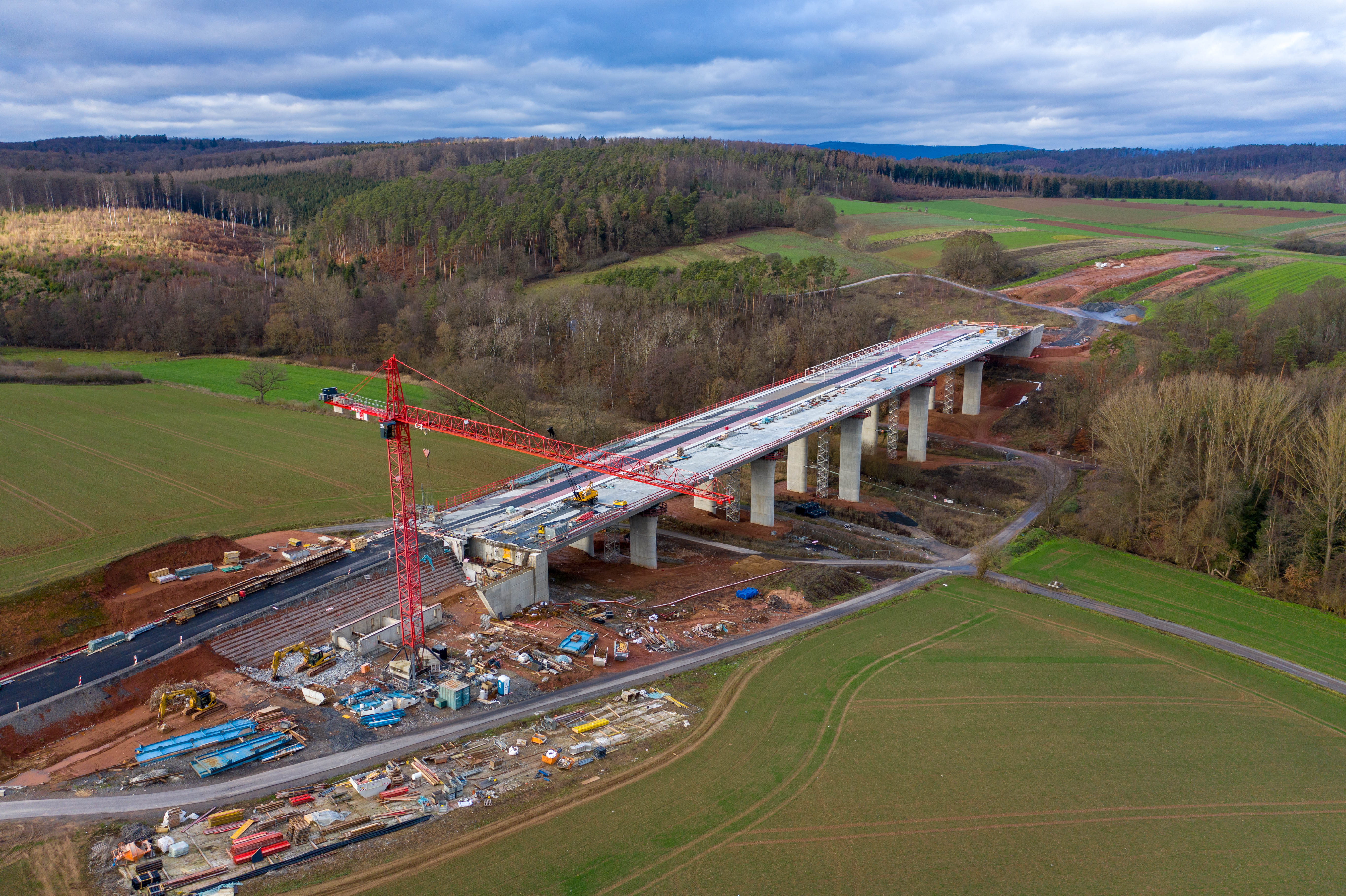 View of the bridge construction of Bundesautobahn 49 (A49)